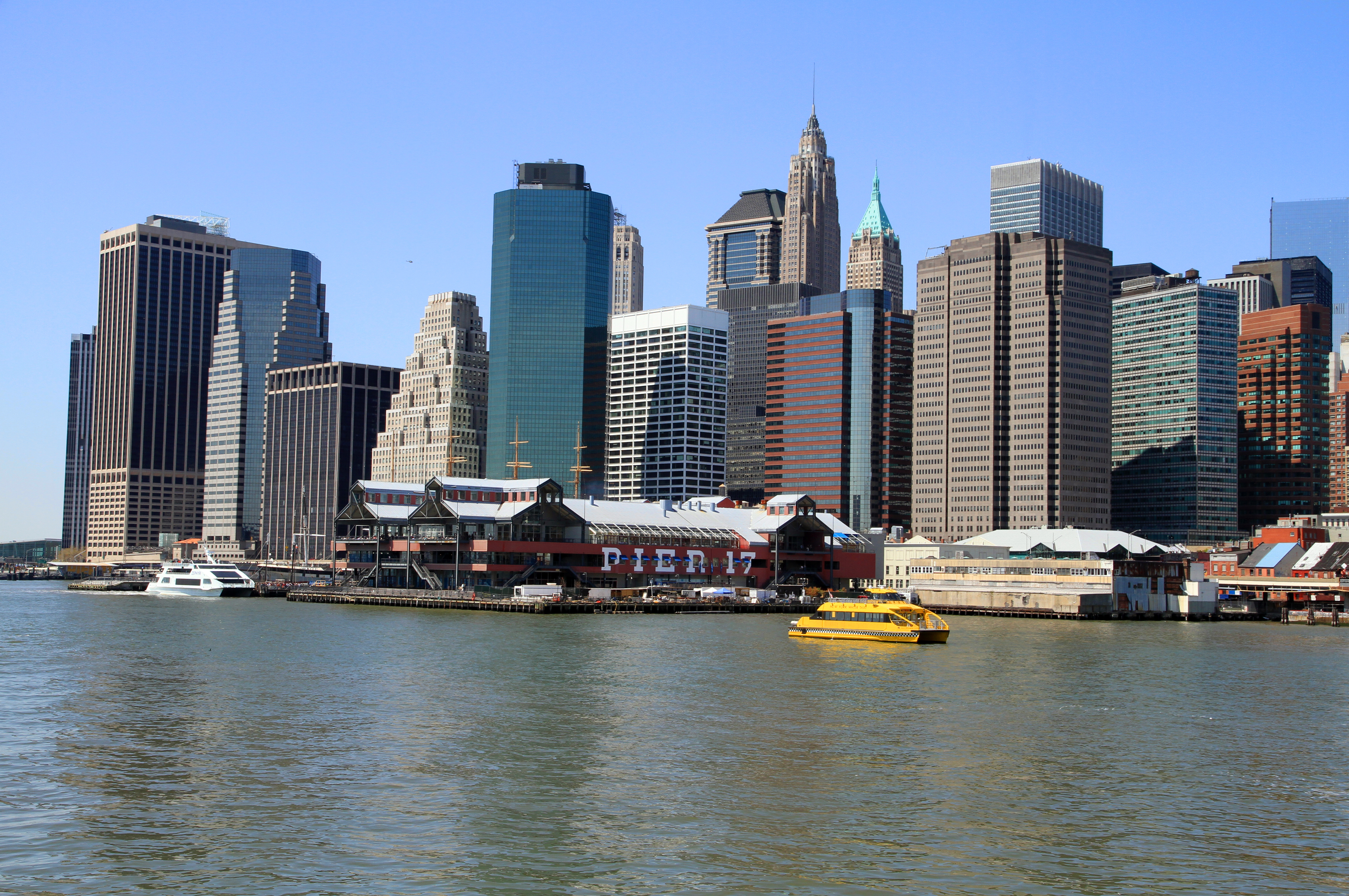 Lower Manhattan